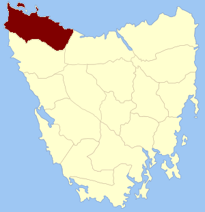 Location of the land district (formerly county) within Tasmania.